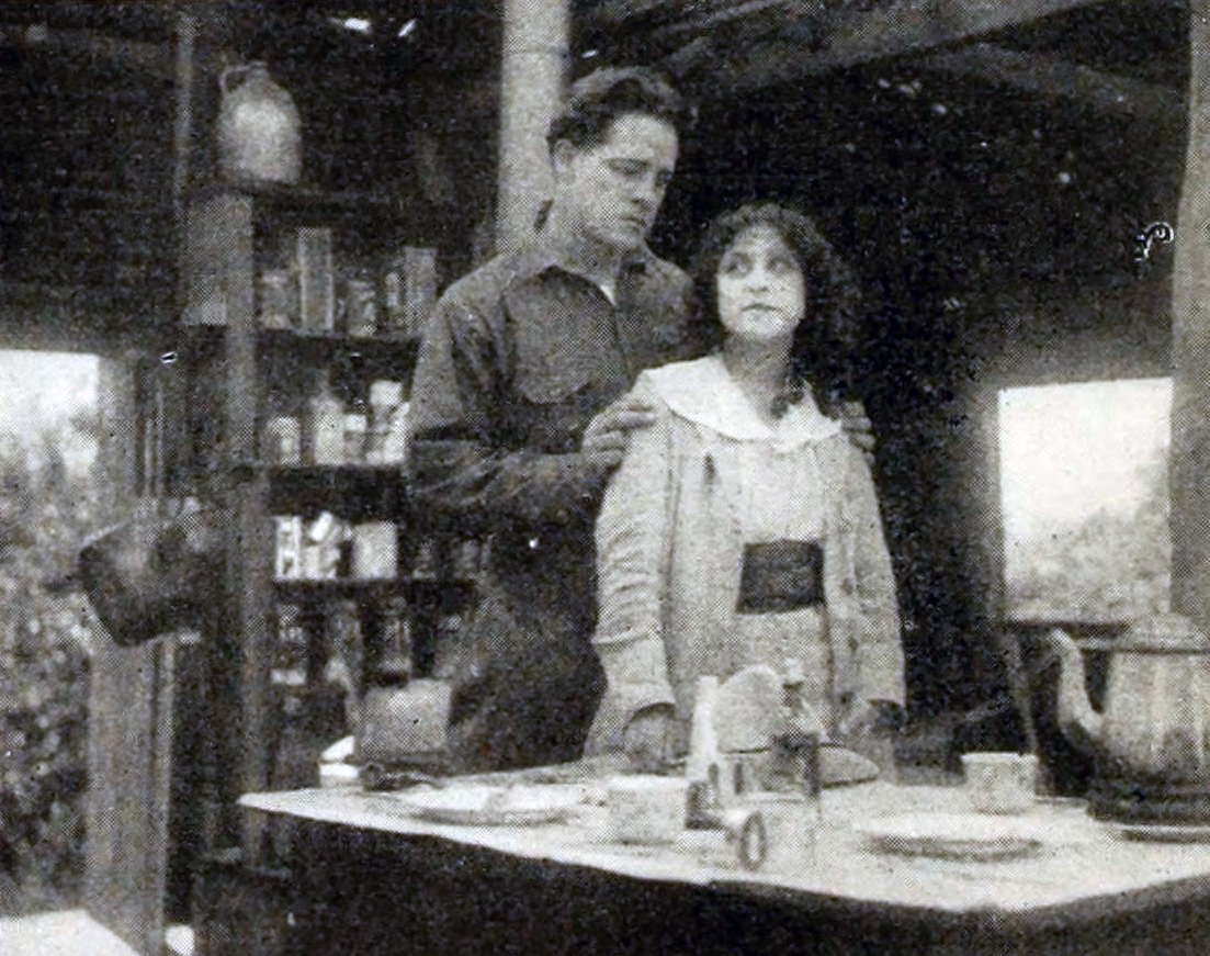 Illustration of a review in The Moving Picture World